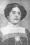 Miss Ellen Bird, chambermaid, Titanic survivor.